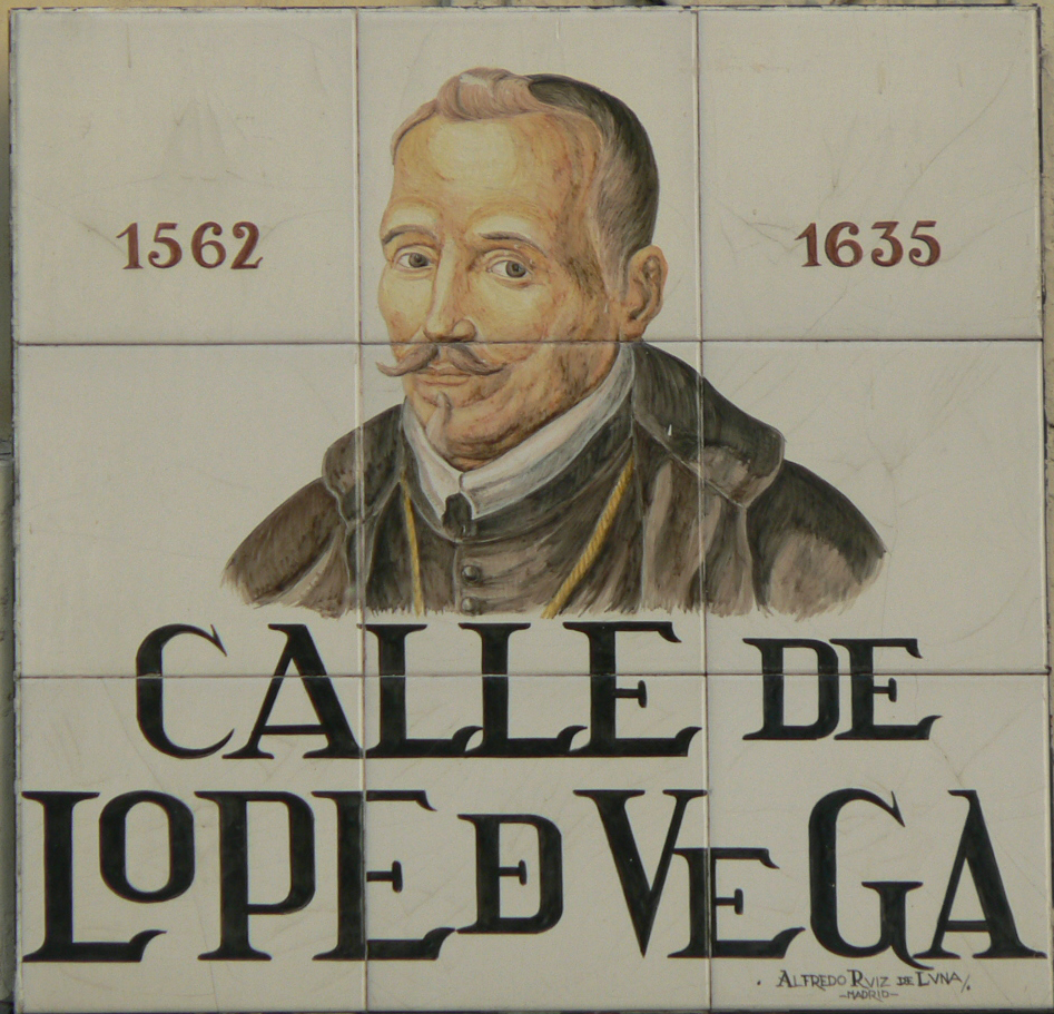 Sign of Calle de Lope de Vega (street, Centro district) in Madrid (Spain).